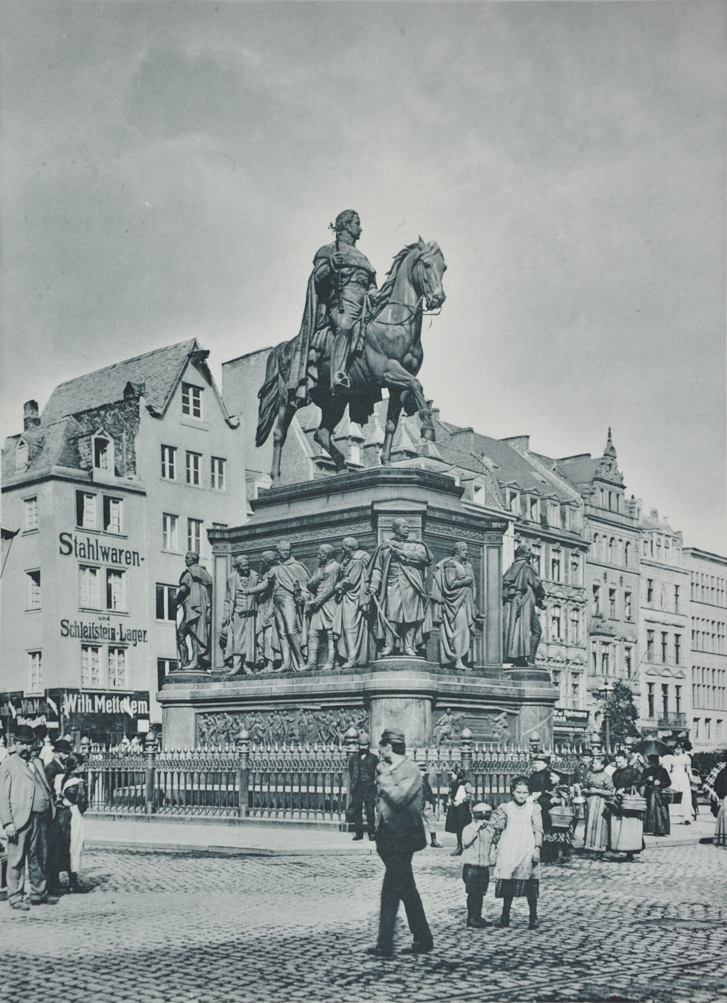 Plate 13. Das Denkmal Friedrich Wilhelm III. from Koeln in Bildern (Cologne in pictures), Paul Neubner, Cologne 1896.